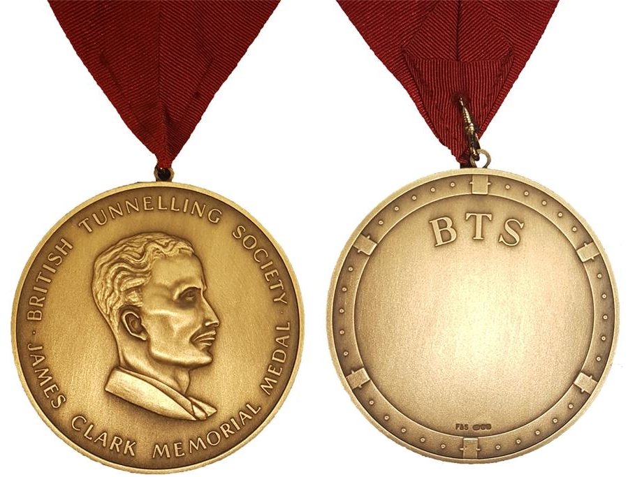 Photo of James Clark Medal (blank; awarded by British Tunnelling Society) for contribution to tunnelling industry